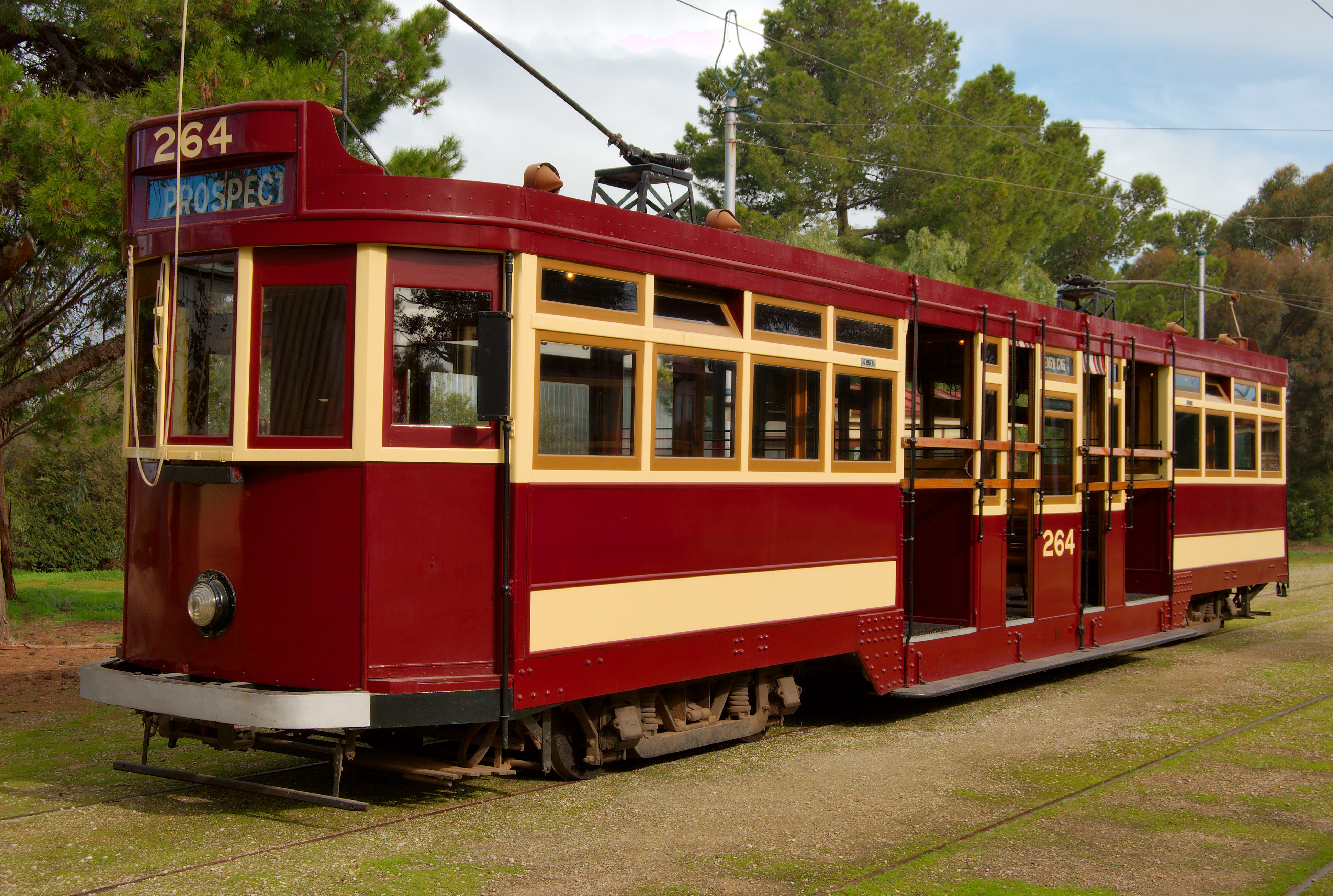 Type F1 (Dropcentre) Electric Adelaide tram no. 264 from c. 1925. On display at the St Kilda tram museum, Adelaide, South Australia